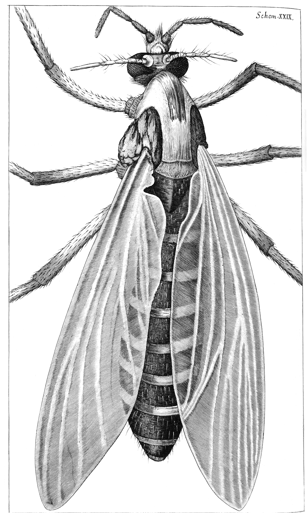 Schem. XXIX - "The great Belly'ed Gnat or female Gnat". An illustration of a Gnat thought to have been drawn by Sir Christopher Wren